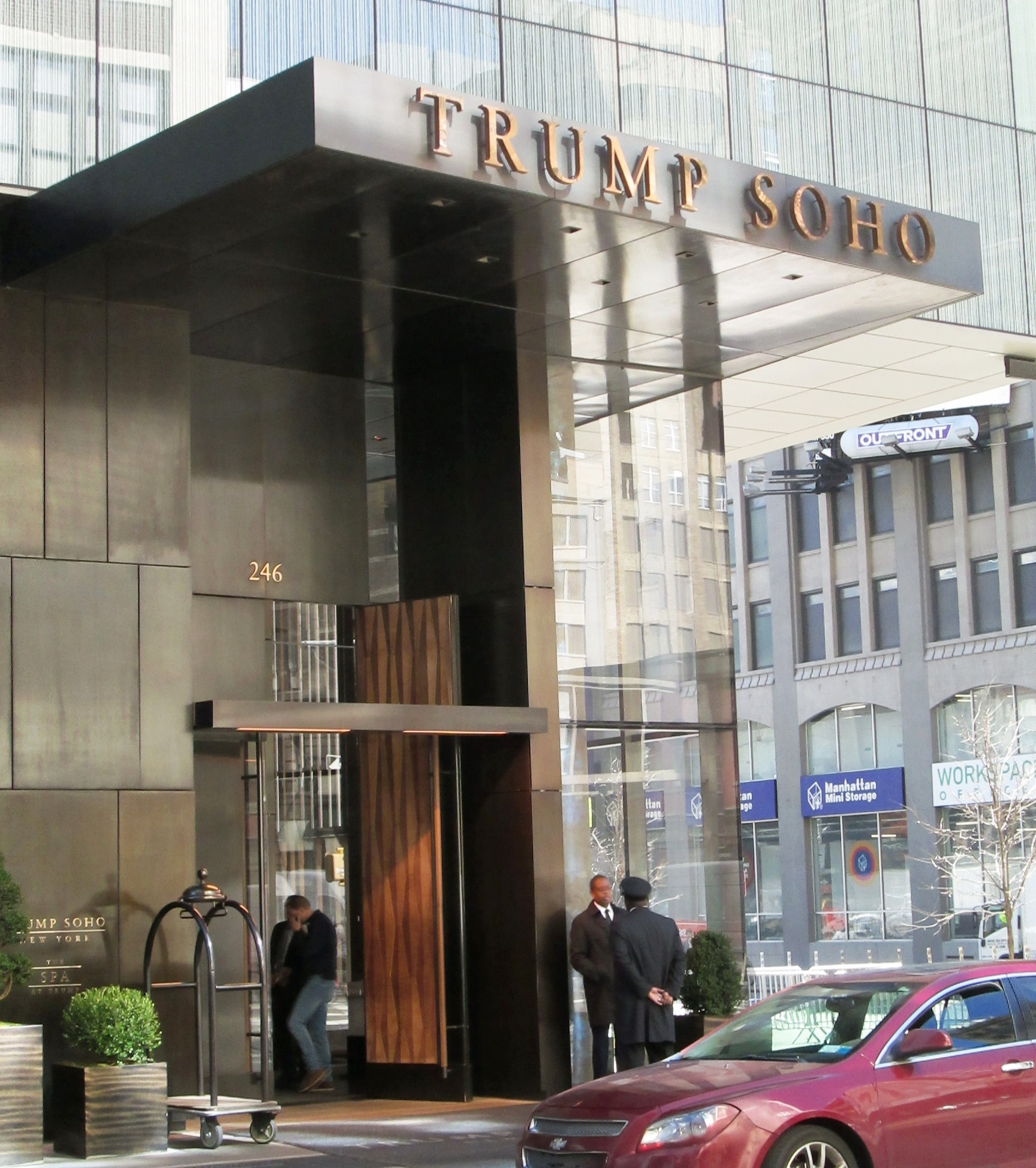 The Trump SoHo, located at the corner of Varick Street and Spring Street in the Hudson Square neighborhood of Manhattan, New York City, was designed by David Rockwell and Handel and Associates. Originally built as residences, the building was too tall for the area's zoning, so it was converted into a "hotel" which the inhabitants can only live in for part of the year. The building was then built higher than allowed even for an hotel. It was completed in 2008. The AIA Guide to New York City calls it a "banal glass box". (Source: AIA Guide to NYC (5th ed.)) This view is of the building's entrance on Spring Street.